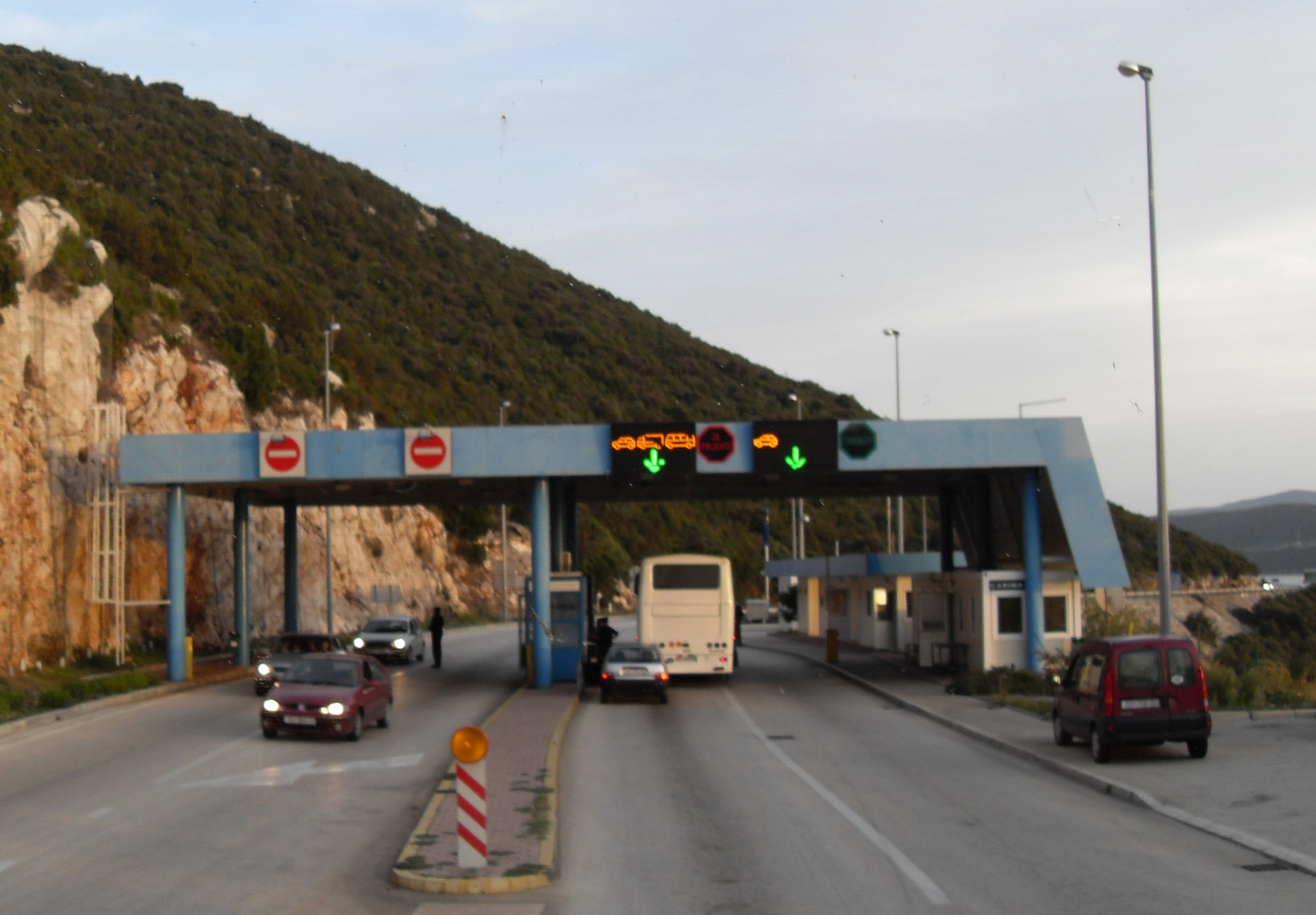 Border point Neum-Klek between Croatian and Bosnia and Herzegovina on the Adriatic road, coming from Croatia